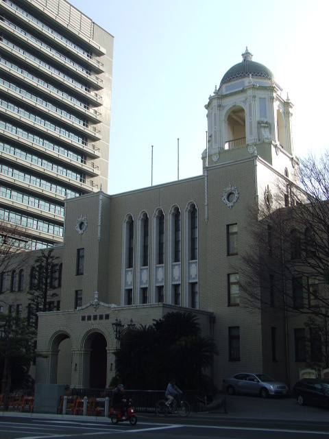 Shizuoka City Hall,Aoi,Shizuoka,Shizuoka,Japan